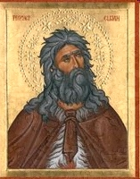 Icon of the prophet Elijah